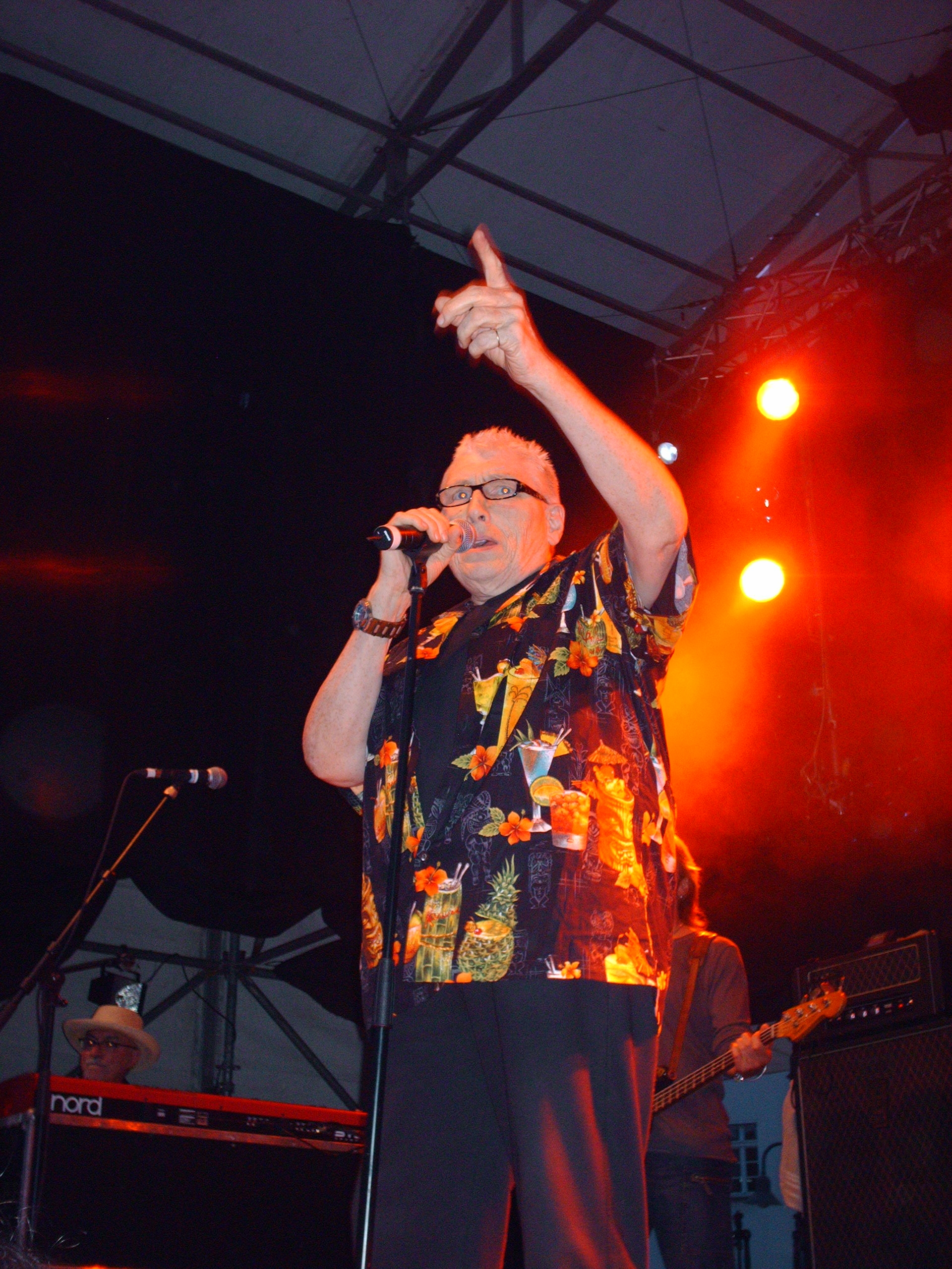 Chris Farlowe, Gießen, Germany check usage